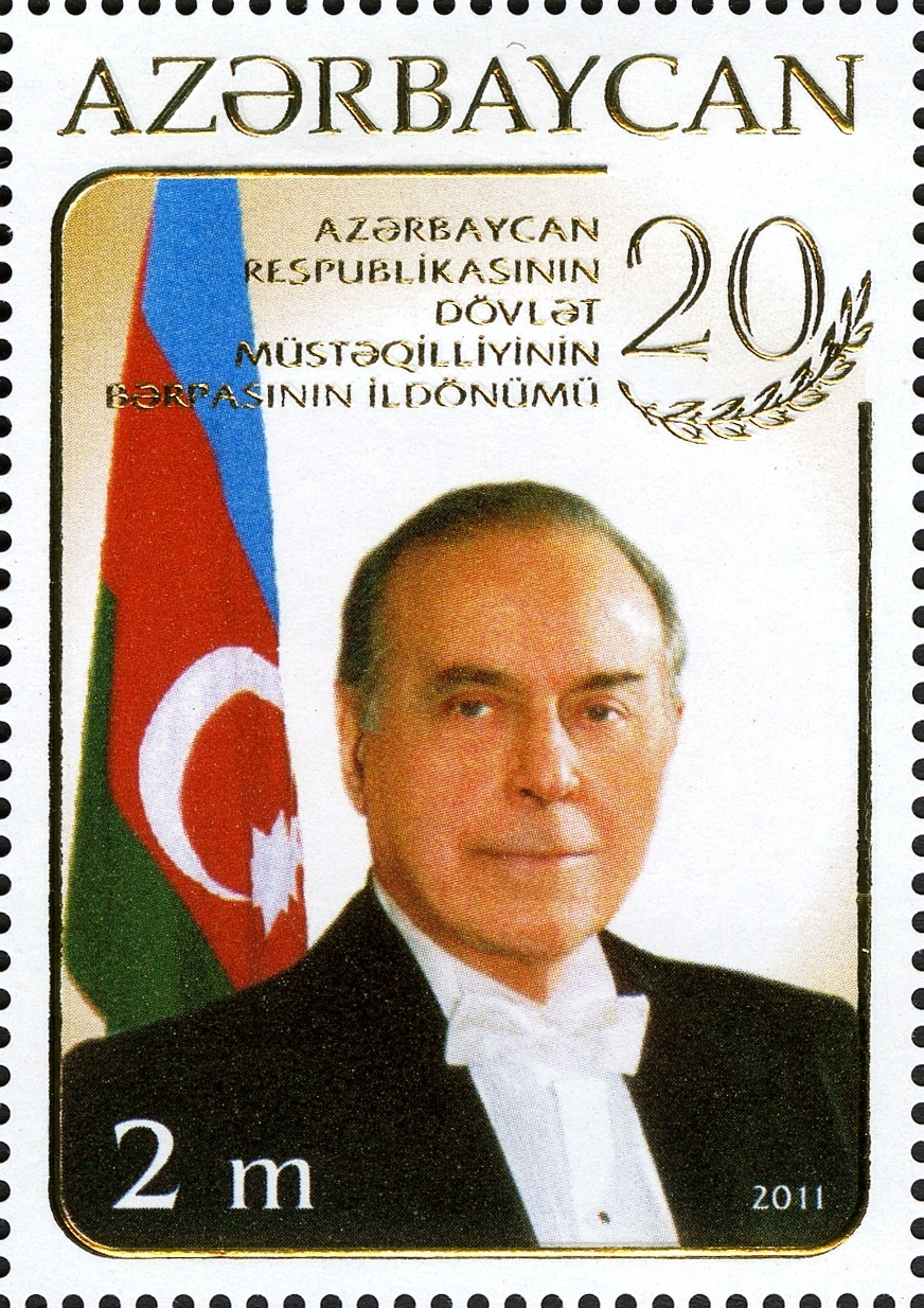 The 20th. Anniversary of the Restoration of State Independence of the Republic of Azerbaijan.